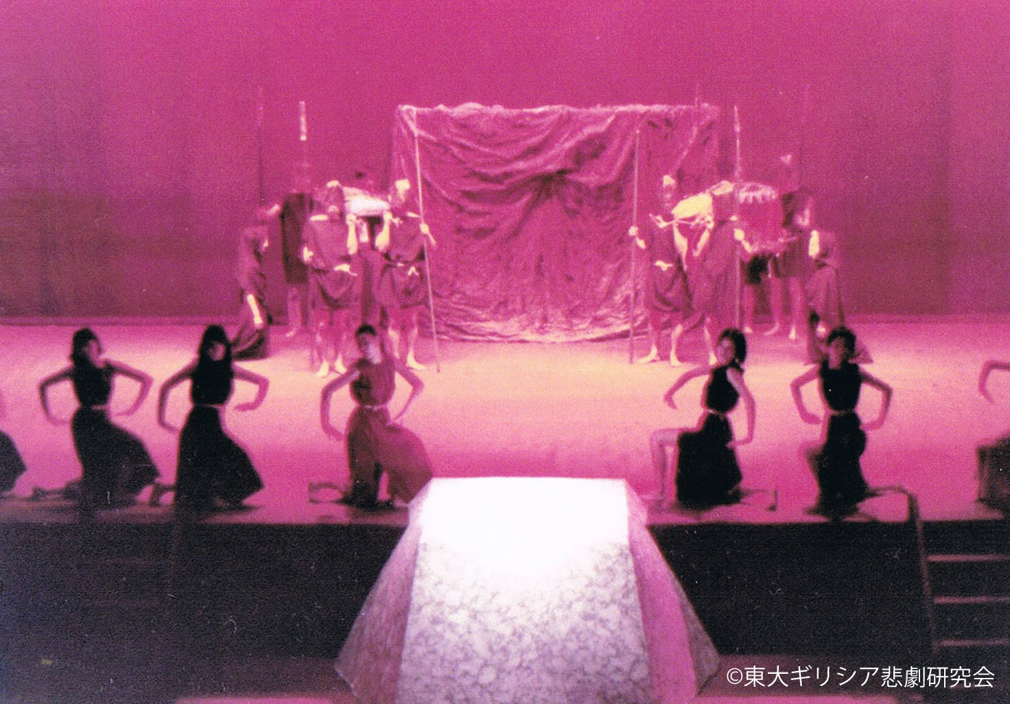 Greek Tragedy 1970 Tokyo University Greek Tragedy Institute-c